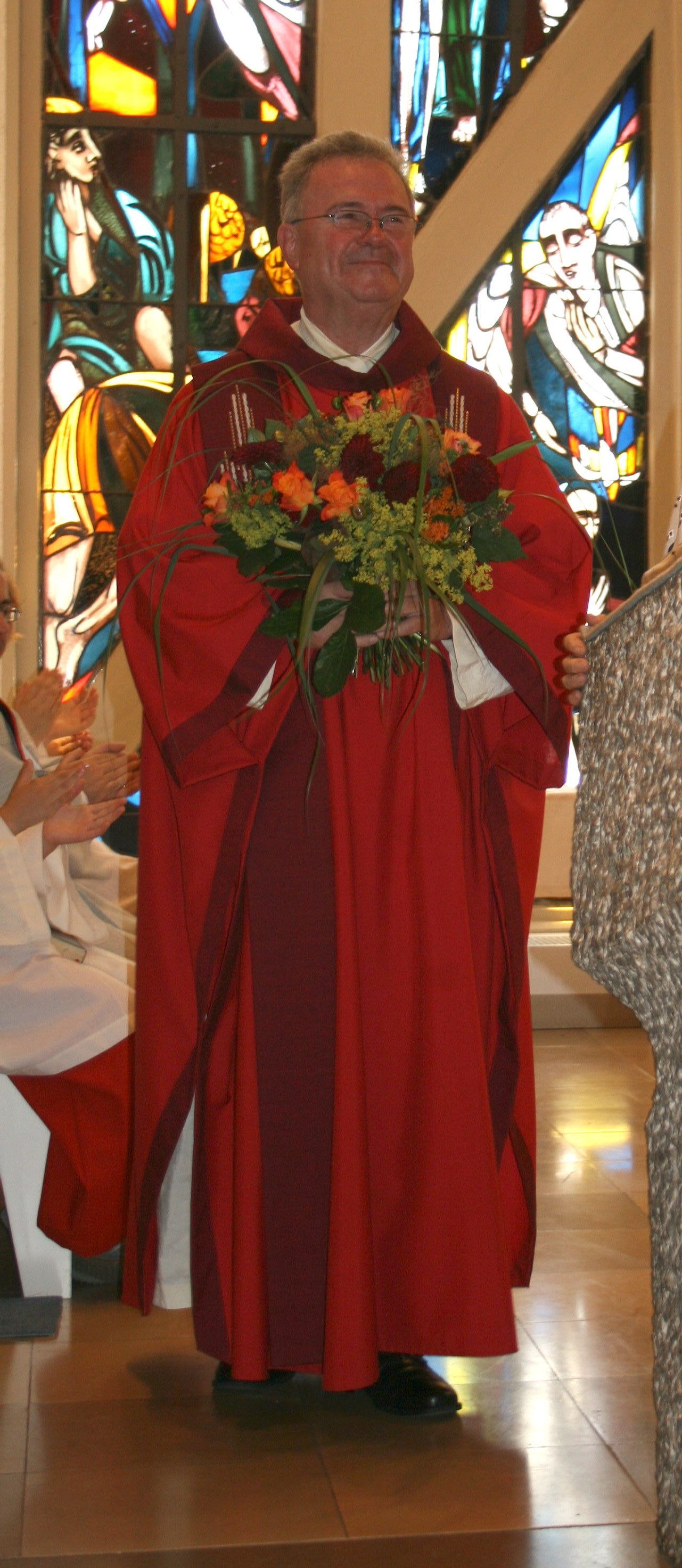 Kilian Nuß